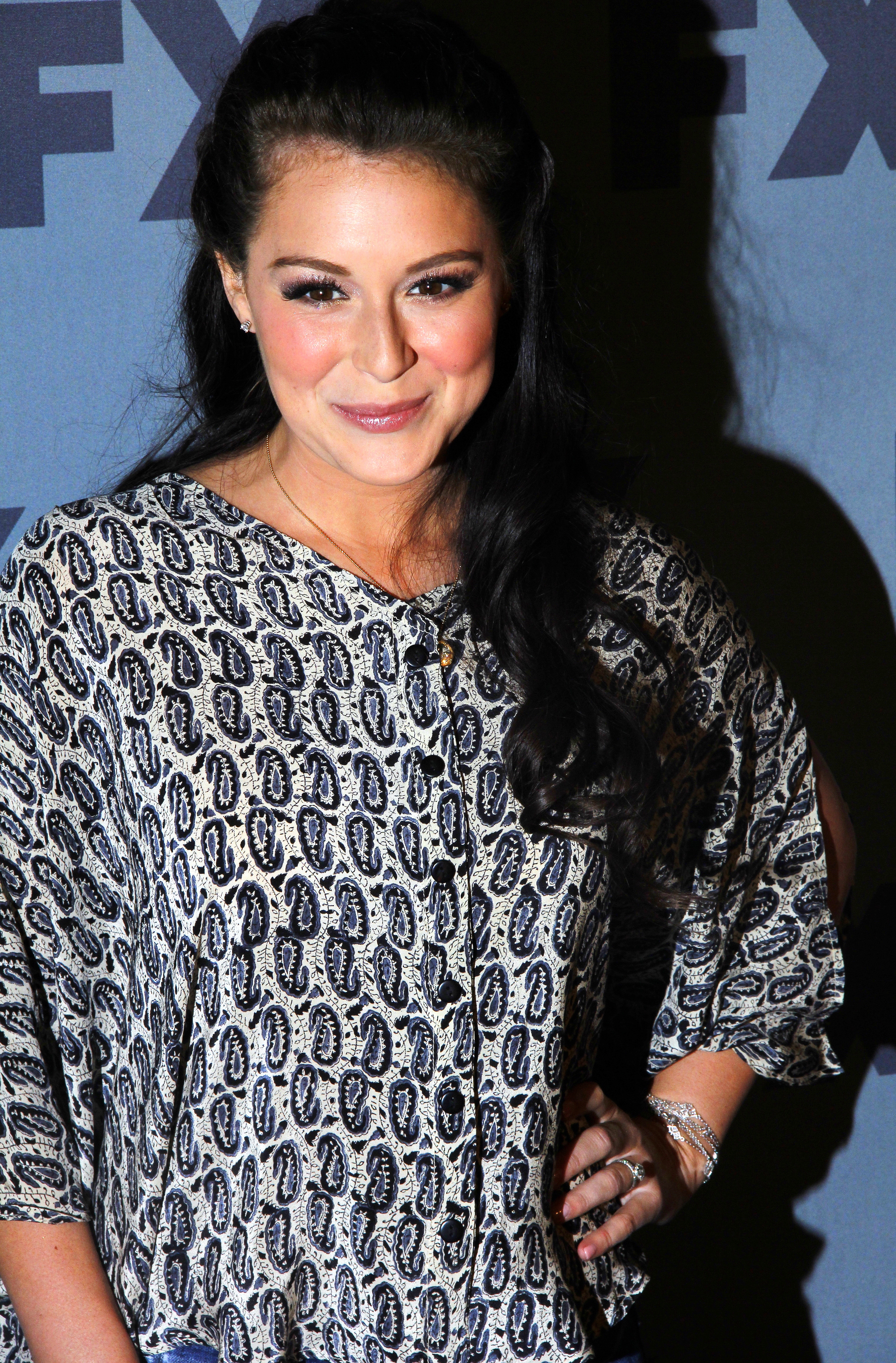 Alexa Vega at the 2012 FX Ad Sales Upfront.